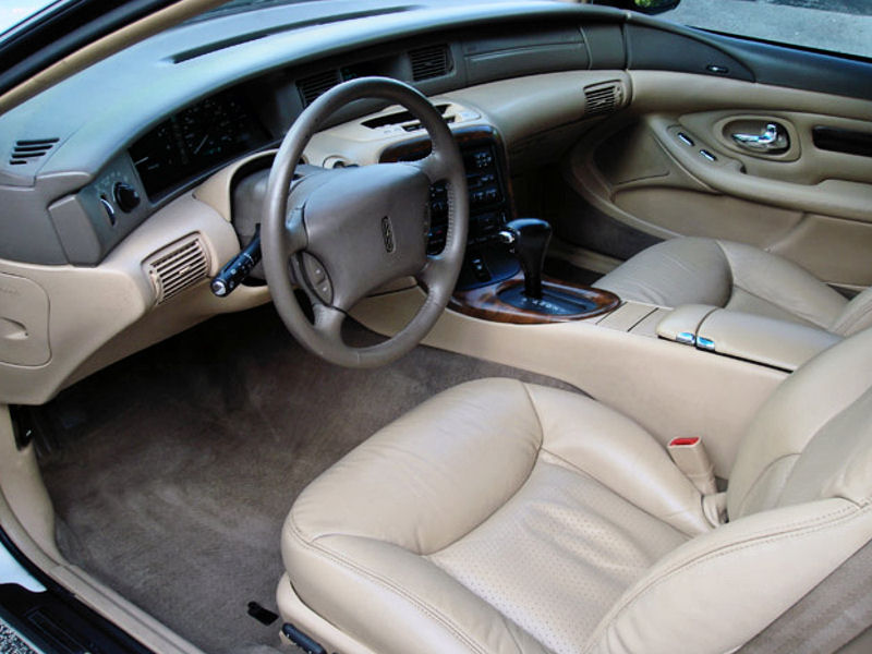 Interior shot of a 1998 Lincoln Mark VIII.